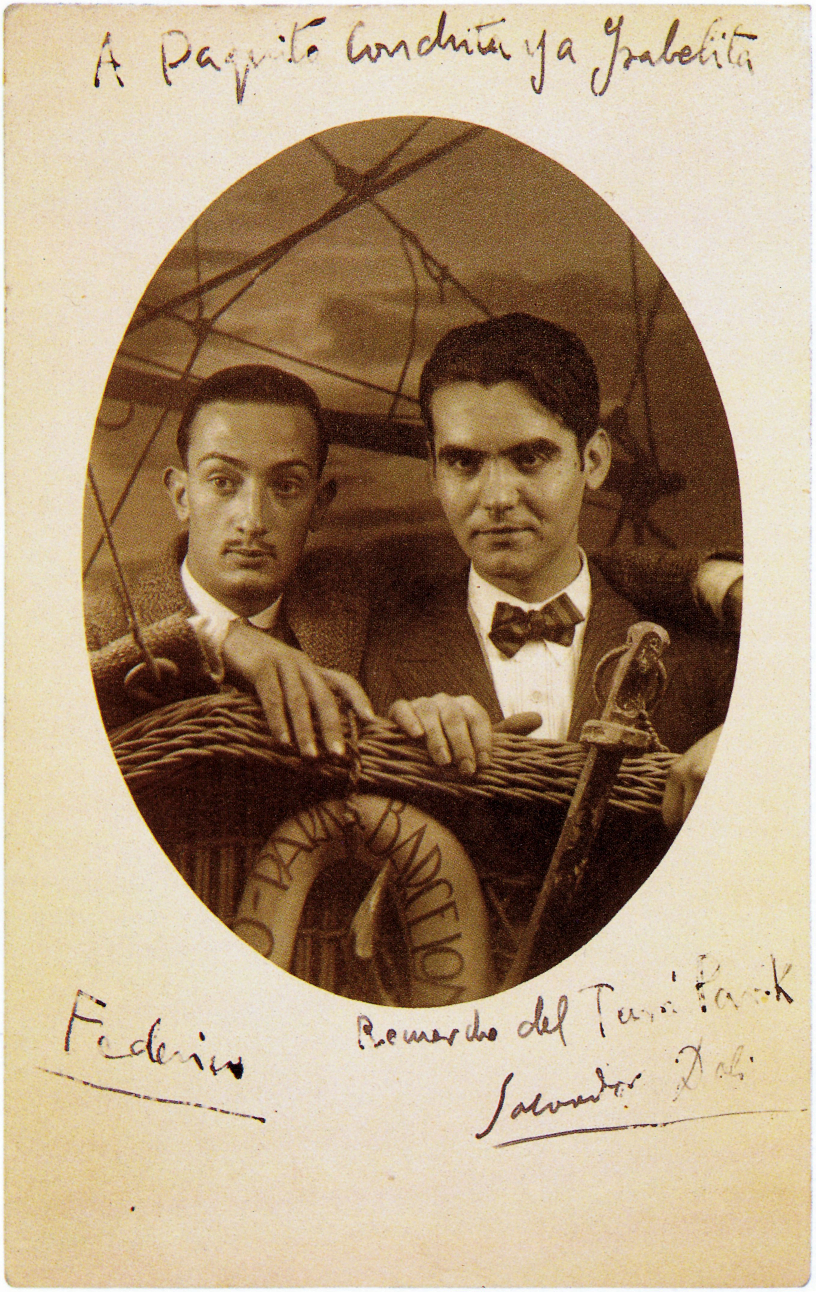 Salvador Dalí and Federico García Lorca, Turó Parc, Barcelona, 1925